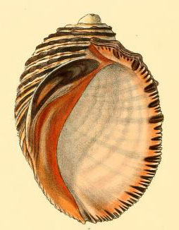 Genus Purpura, Plate I. Purpura patula, synonym of Plicopurpura patula[1]